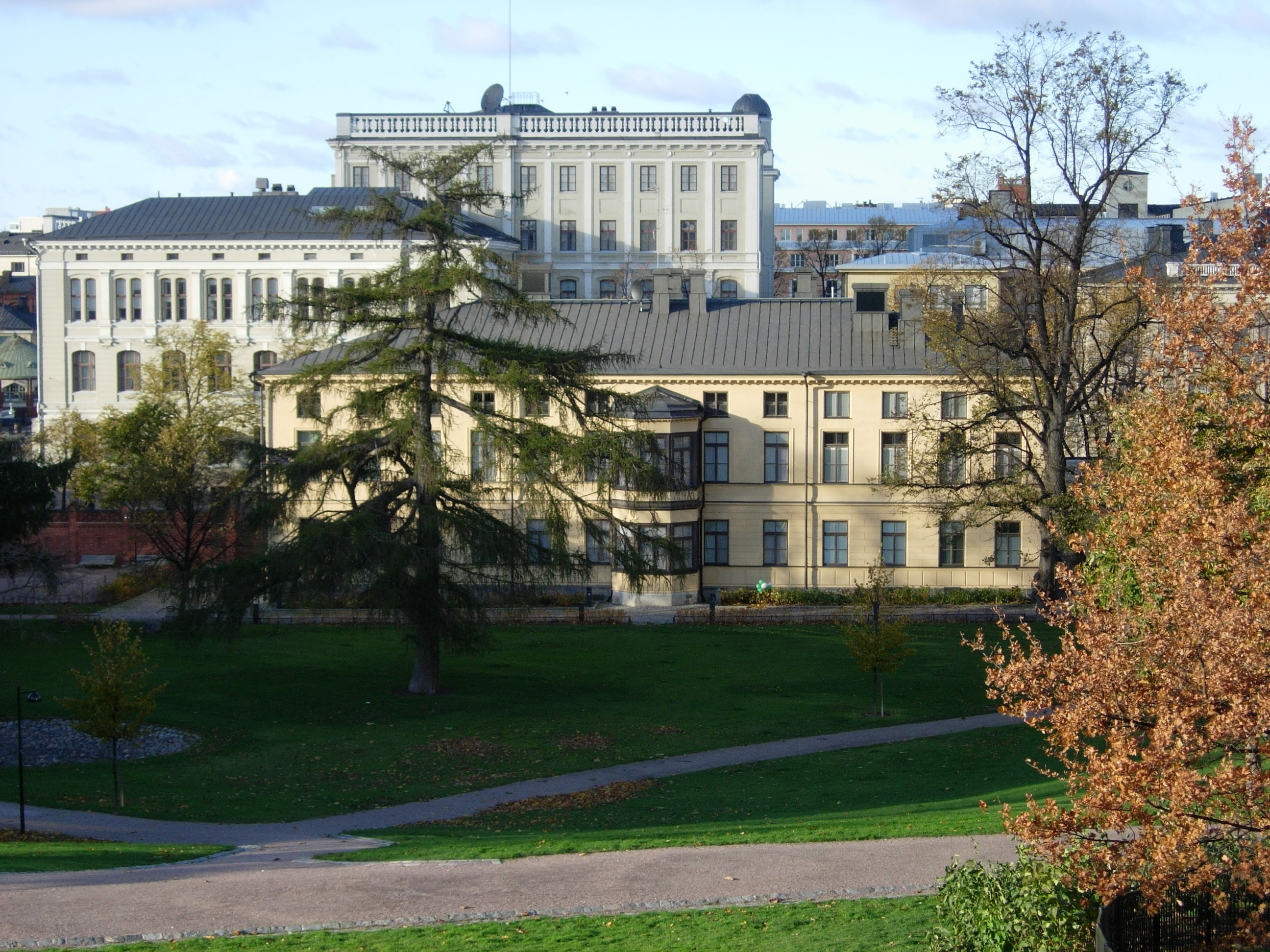 Sinebrychoff Art Museum, Helsinki, Finland. Built 1842. Architect: Jean Wik